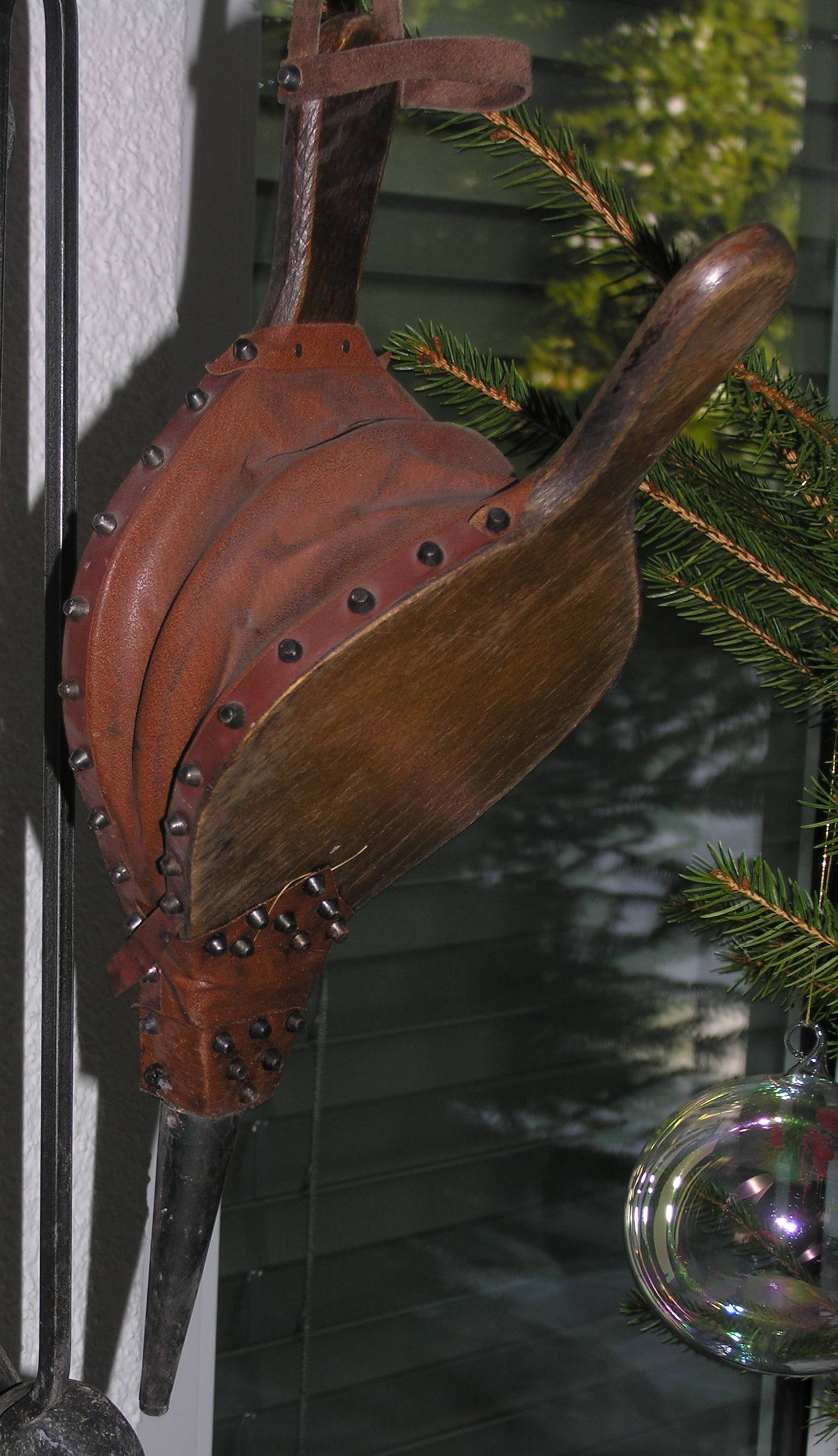 Bellows